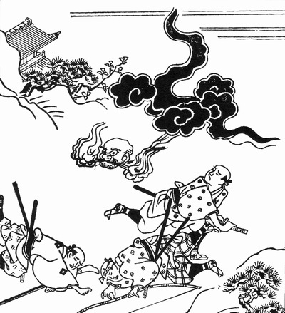 Abura-nusubito (油盗人, an infant ghost who licks the oil out of andon lamps) from the Kokon Hyaku-monogatari Hyōban (古今百物語評判)